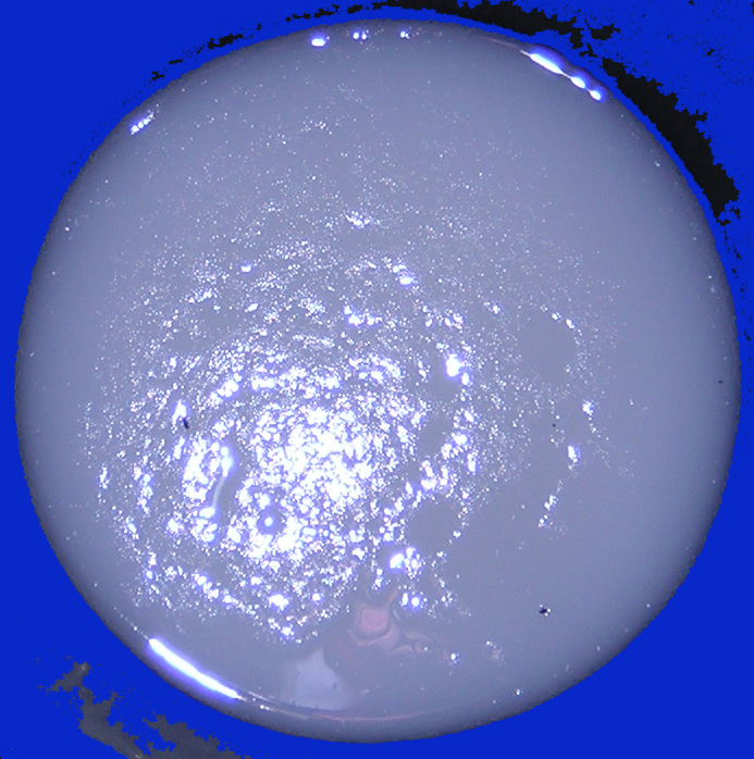 Excrement of cholera. Serious patient state.